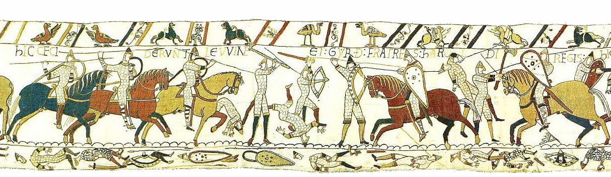 Bayeux Tapestry Scene 52b